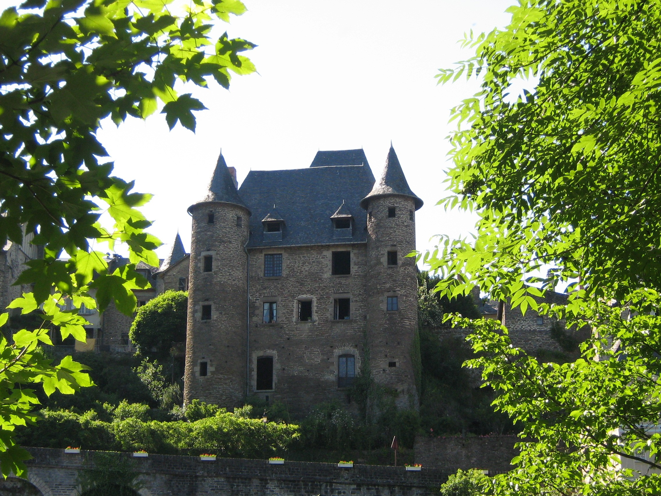 uzerche